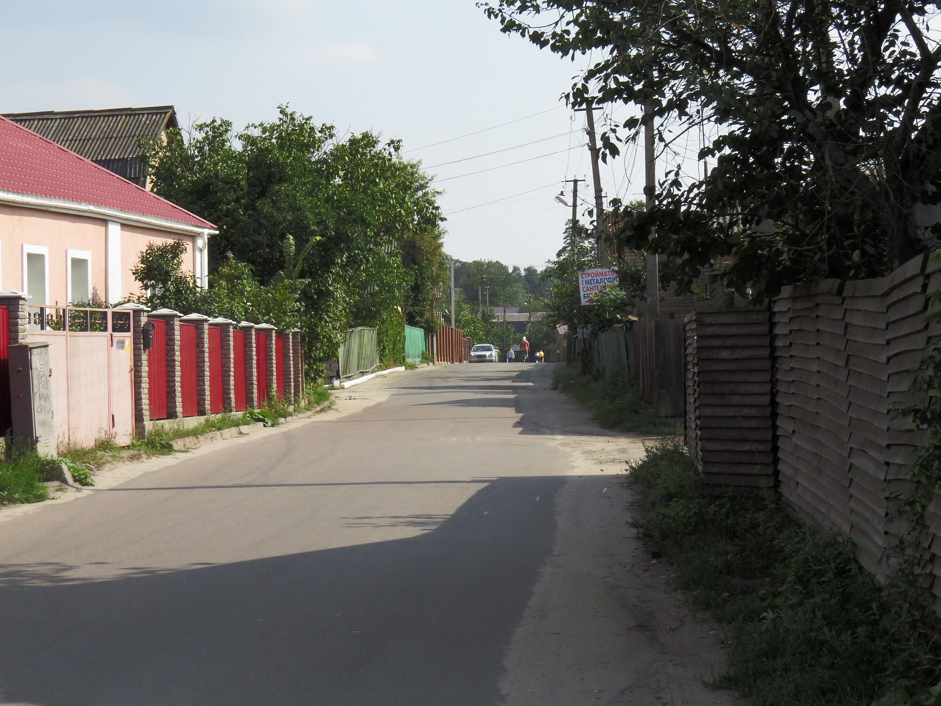 Kievska street in Horenka, Kiev-Sviatoshyn raion, Kiev oblast, Ukaine